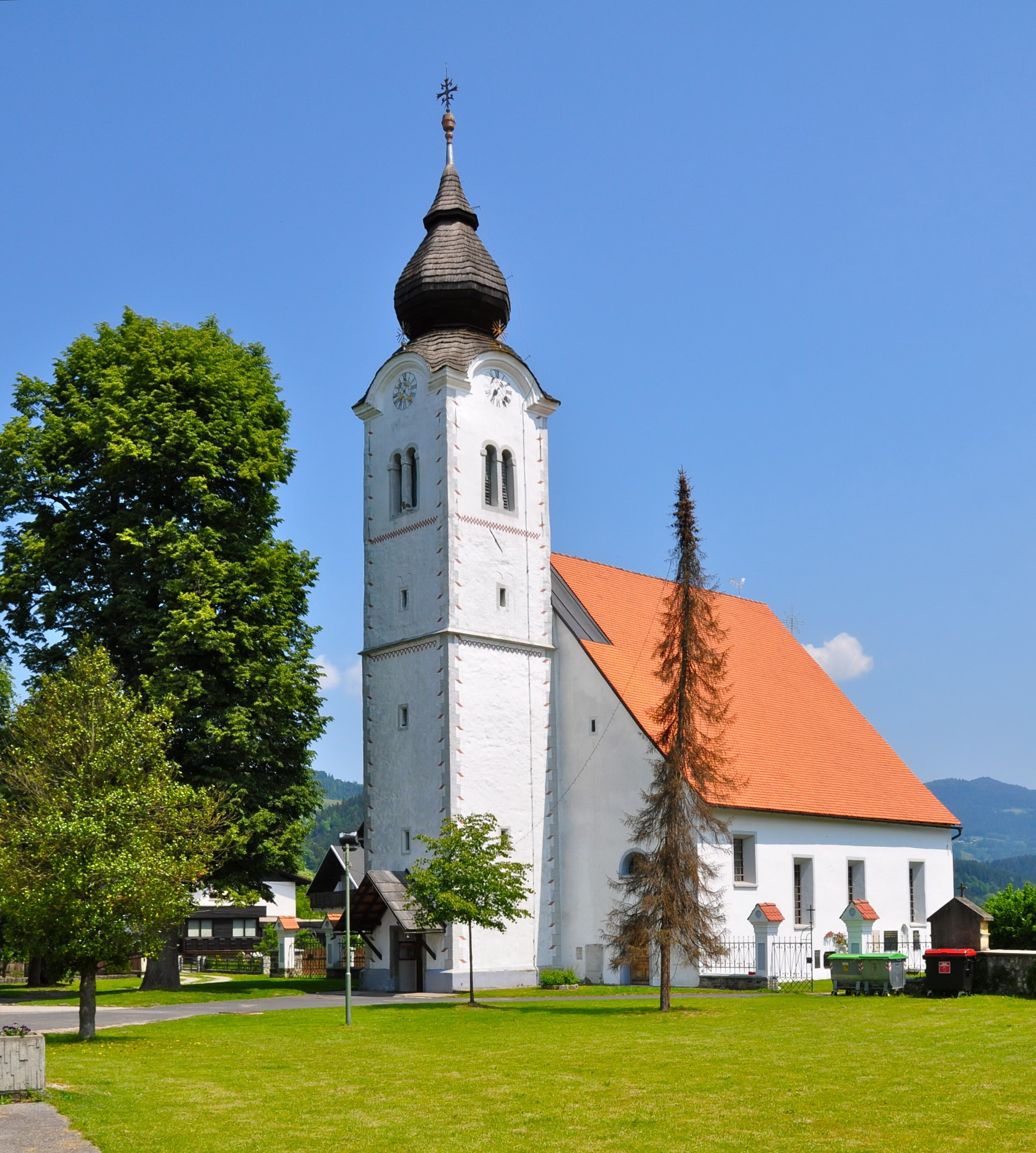 Parish church Saint Margaret at Muta, municipality of Muta ob Dravi, region Koroška, Slovenia